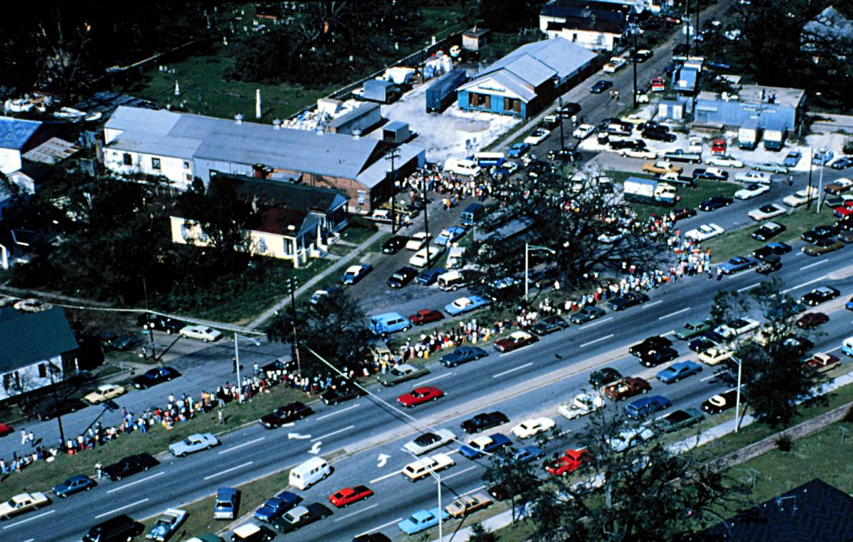 Evacuations before Hurricane Frederic Landfall